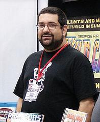 Taken from by permission from Carlos A. Smith. Description: Chris Pramas at Gen Con in 2007. Date: August 17, 2007 (according to Flickr) Source: Cropped from Flickr